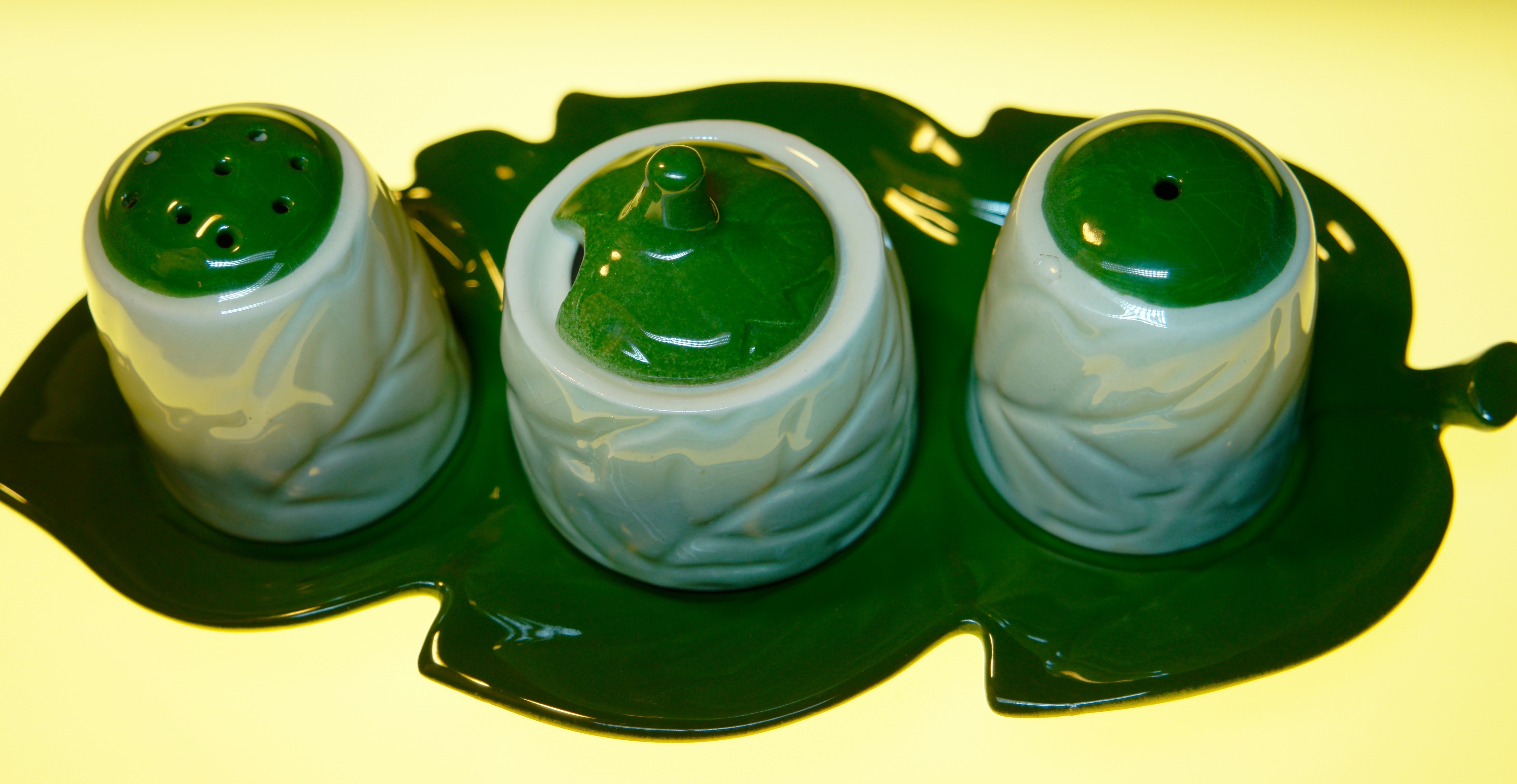 Detail of a Carlton Ware cruet set in the form of a green leaf, foliage patterns being typical of Calton Ware. The fine detail nicely shows the glaze craquelure. Australian design, based on the reverse markings. Est. 1950s. Photo taken without flash, but on a light table with a hand-held LED light and a desk lamp.